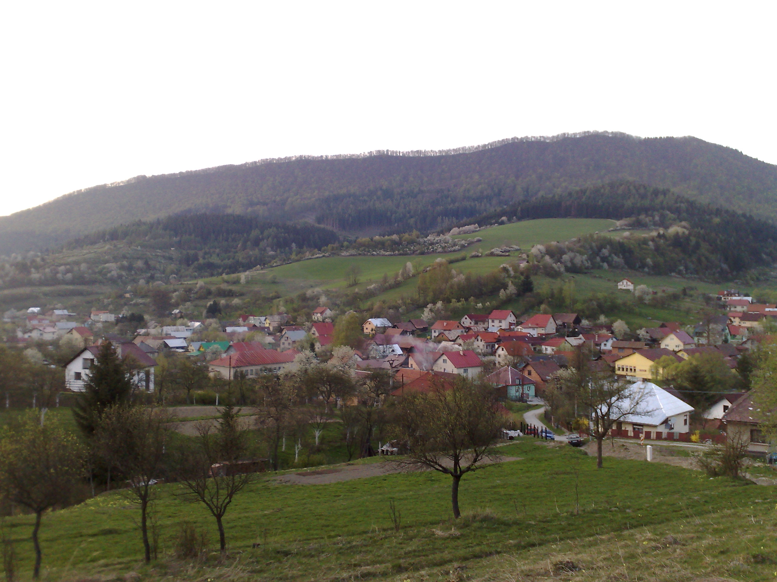 Dolny Vadicov - village